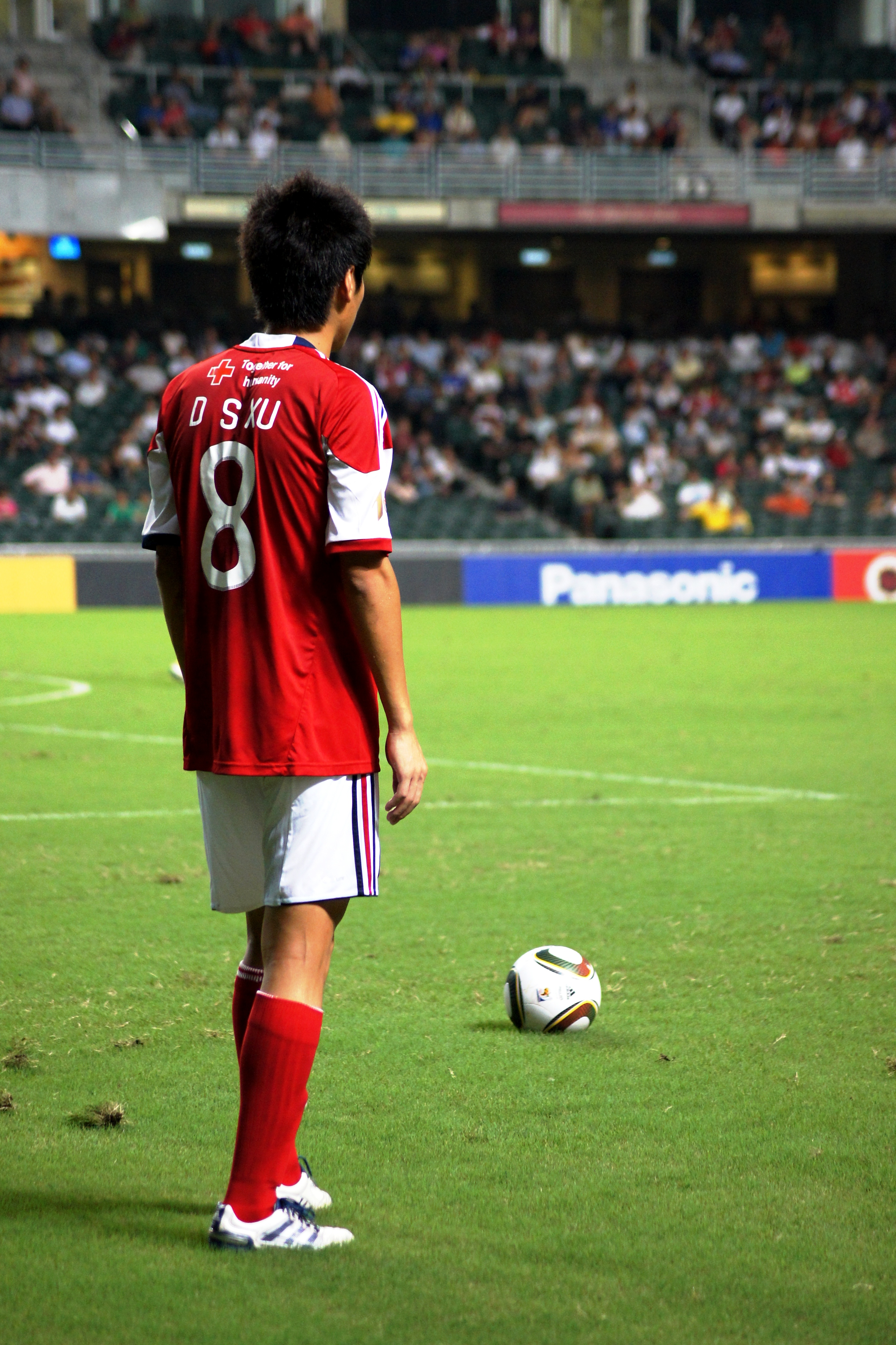 Xu Deshuai play for South China against Sun Hei